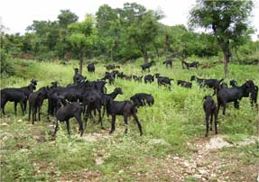 Sheep Research station